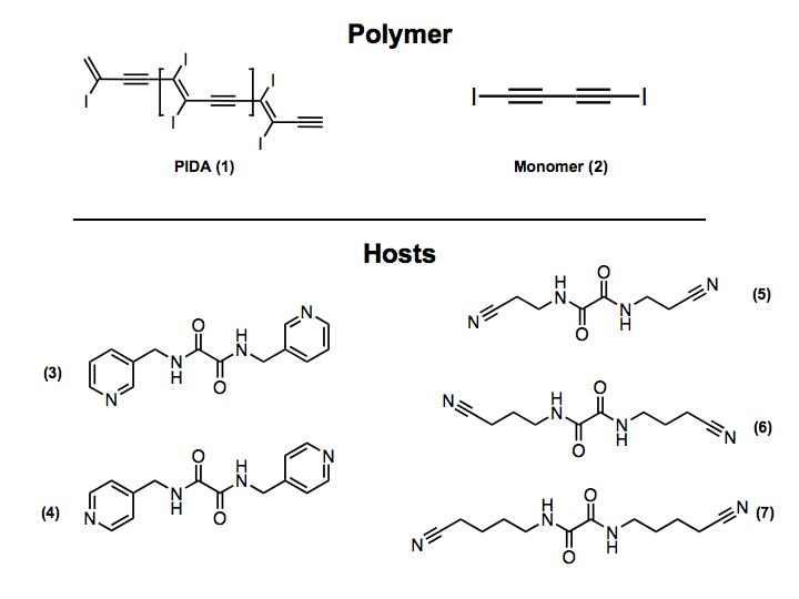 halogen bond picture one TL